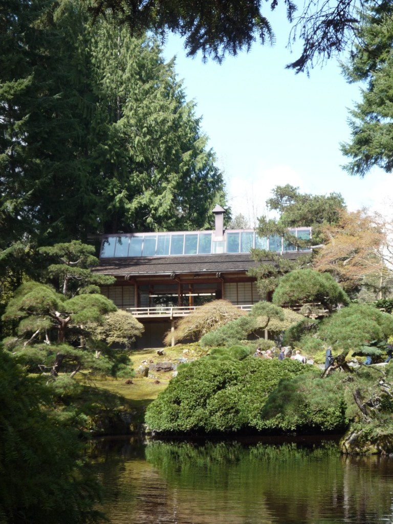 The Japanese Garden at the Bloedel Reserve, Bainbridge Island, Washington State, USA